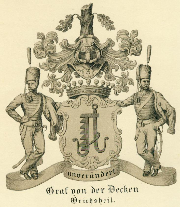 Wappen von der Decken-Oerichsheil